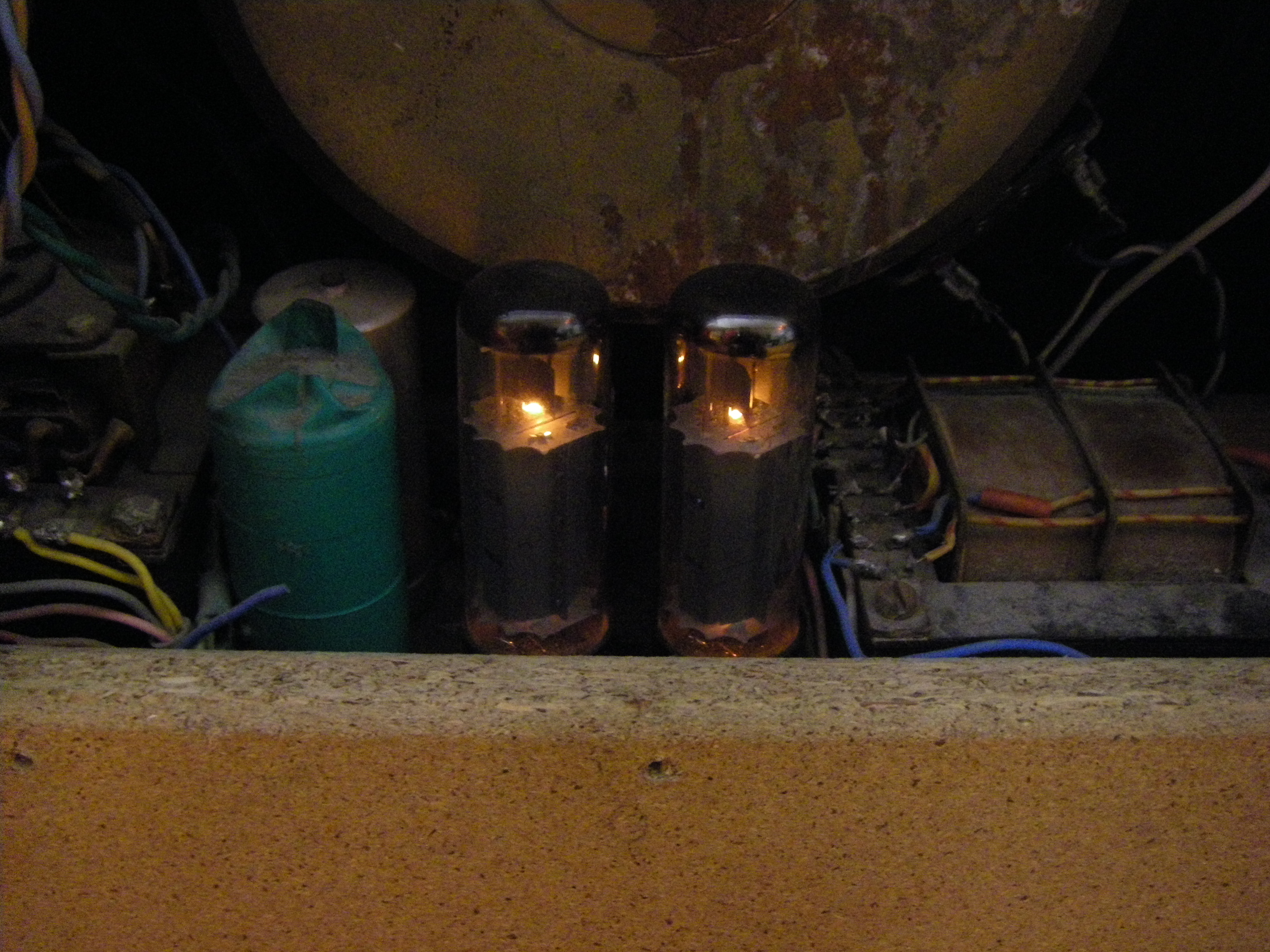 speaker magnet, capacitors and two glowing EL34 tubes in a self-made guitar amp